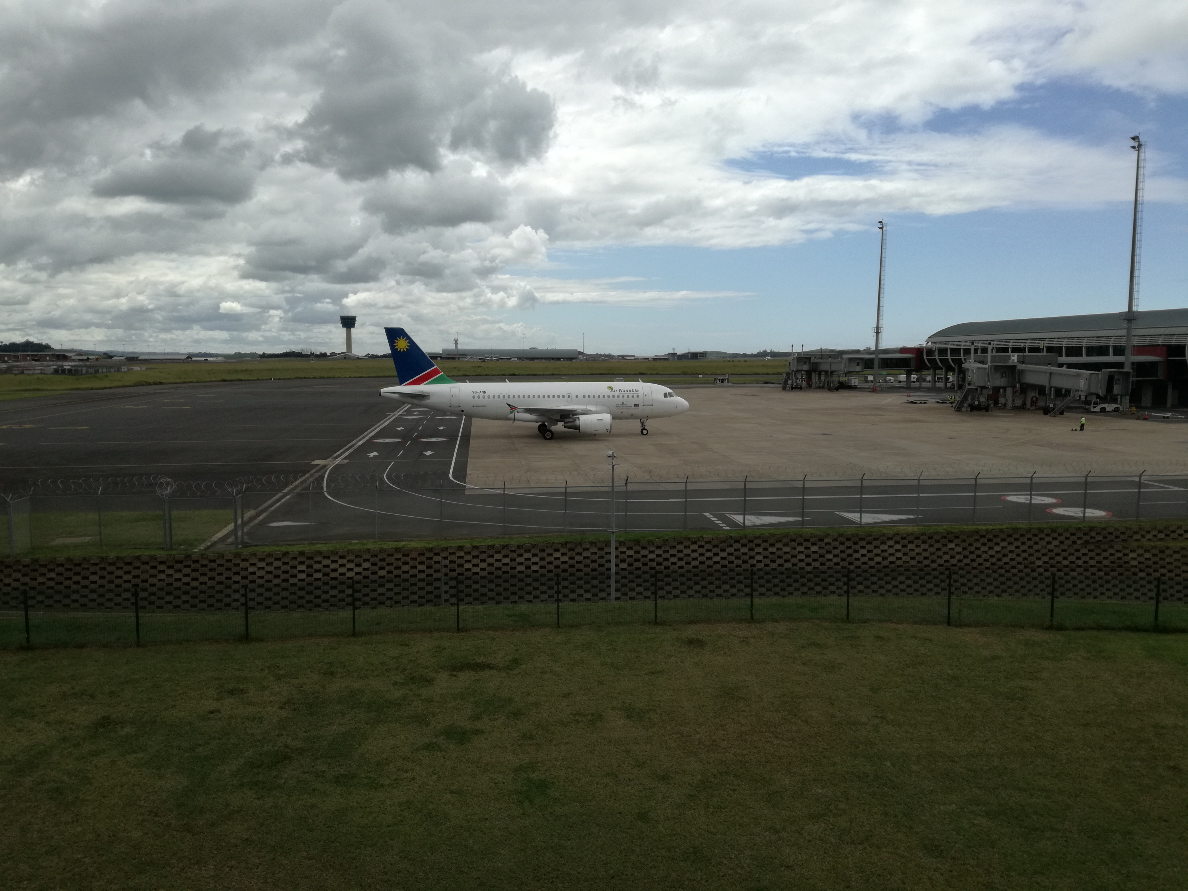 Air Namibia Airbus A319-100 taxing at King Shaka International Airport